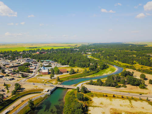 Photo of the Town of High River taken from above the downtown core, looking at the river & downtown.